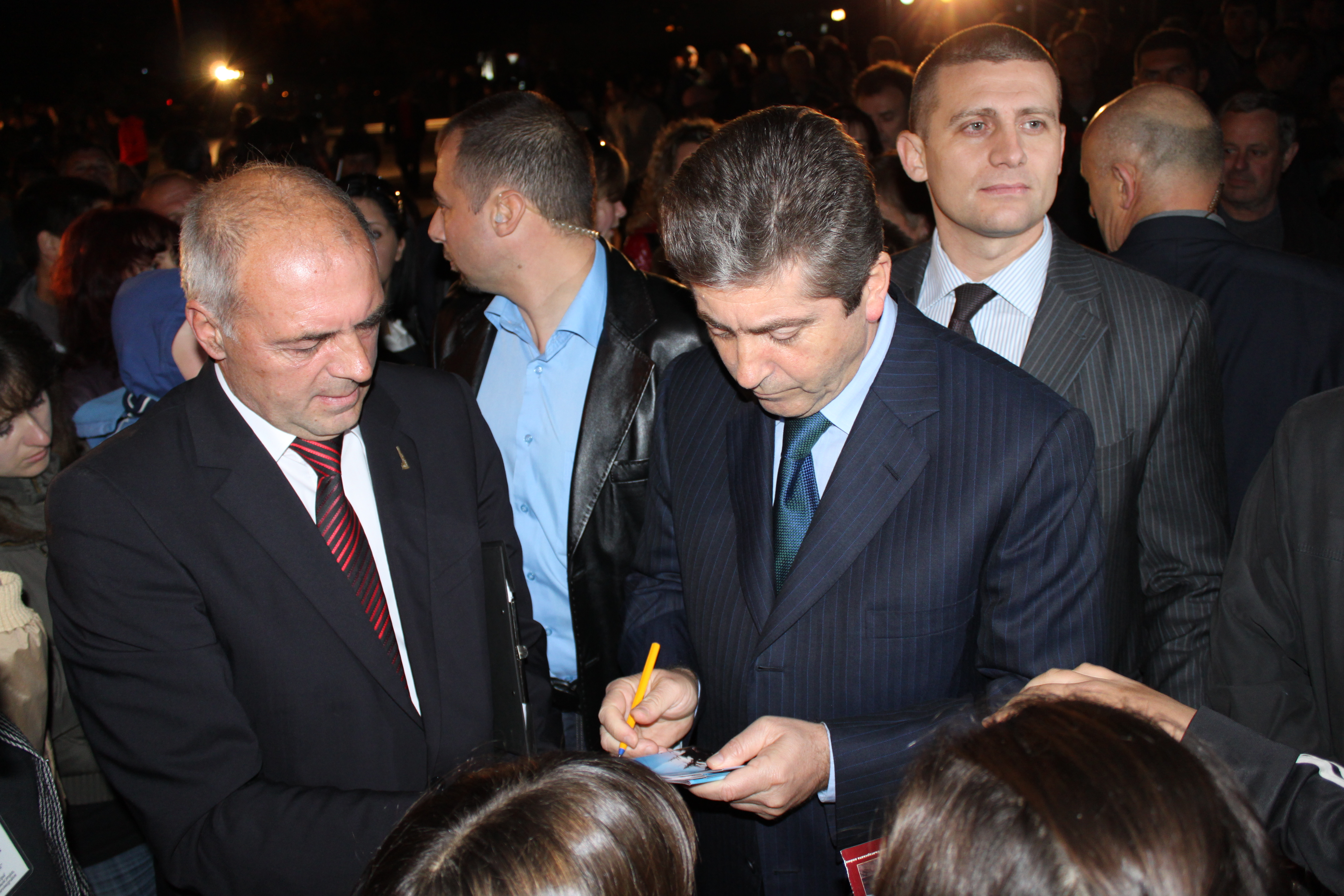 Georgi Parvanov (born June 28, 1957) is the current President of Bulgaria